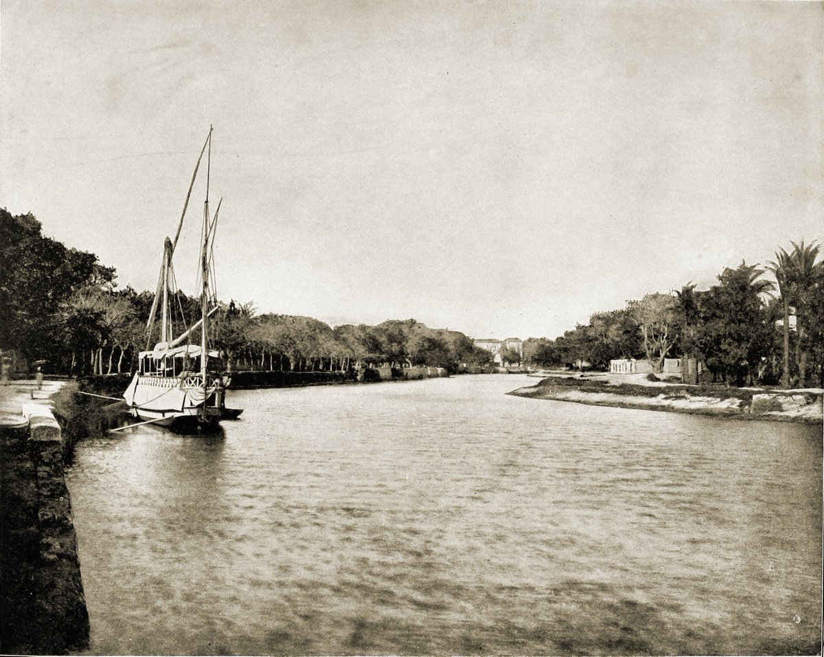 Mahmoudiyah Canal, Egypt in 1892. "THE MAHMUDIYAH CANAL, EGYPT — This great work was constructed by the famous Viceroy of Egypt, Mohammed Ali in 1819. His intention was to connect thus the city of Alexandria with Cairo and the Delta of the Nile, and at the same time to supply the former city with Nile water. He succeeded, but at a fearful cost of human life. He forced 250,000 of the peasants of Egypt to work here like galley-slaves, and 20,000 of them are said to have perished from exposure and inhuman treatment. The cost of the canal in money was about one and a half million dollars. This artificial river is wide and deep enough to be traversed by barges and small steamers, and where it receives its supply of water from a branch of the Nile, its banks are lined with solid brick masonry. There are also four engines, of 100 horse-power each, which give an impetus to the water so as to make it flow towards Alexandria. The construction of this canal has been of immense benefit to Egypt. Wherever the waters of the Nile are carried, there can be found life and fertility. Beyond the reach of its waves lies the region of Death — the Desert. The great occupation of the people, therefore, is now, as it was thousands of years ago, irrigation. Only bring the water to the land in the seasons, when the river does not overflow its banks, and the Nile will make it glow with beauty and fertility. What a marvelous river, therefore, is this! Hemmed in on the east and west by scorching deserts, it nevertheless rescues from their withering grasp the two long strips of territory on either bank, which formed the marvelous Egypt of antiquity, and constitute the Egypt of today. (from John L. Stoddard, Glimpses of the world; a portfolio of photographs of the marvelous works of God and man – 1892) "